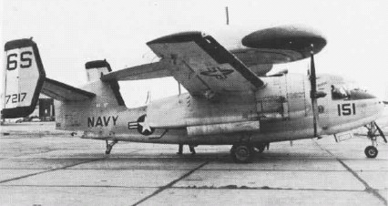 A Grumman E-1B Tracer (BuNo 147217) of Naval Reserve airborne early warning squadron VAW-78 Fighting Escargots at NARTU Norfolk, Virginia (USA), in 1970. VAW-78 was assigned to Reserve Carrier Anti-Submarine Air Group 70 (CVSGR-70). This aircraft is today on display at New England Air Museum, Windsor Locks, Conneticut (USA).